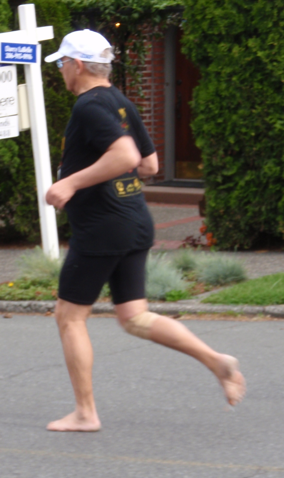 An example of a barefoot runner in a 5K race.